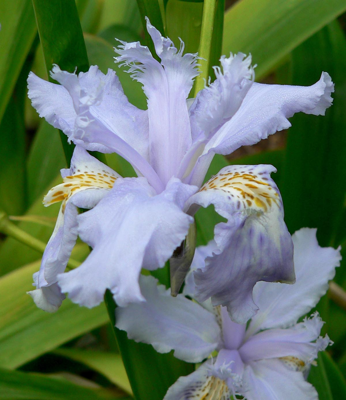 Photo of Iris wattii at the University of California Botanical Garden